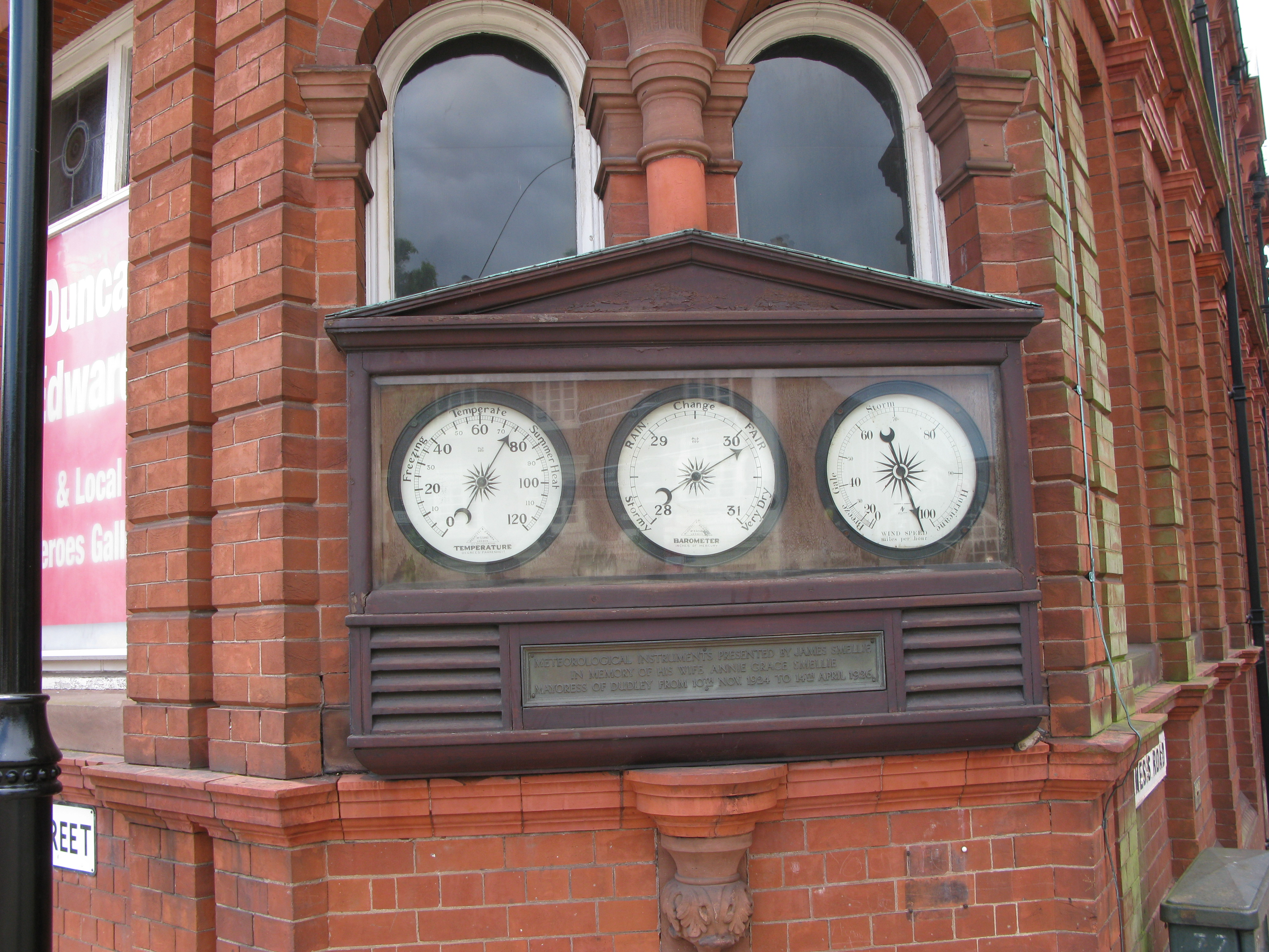 on the corner of the building - don't know if it actually works